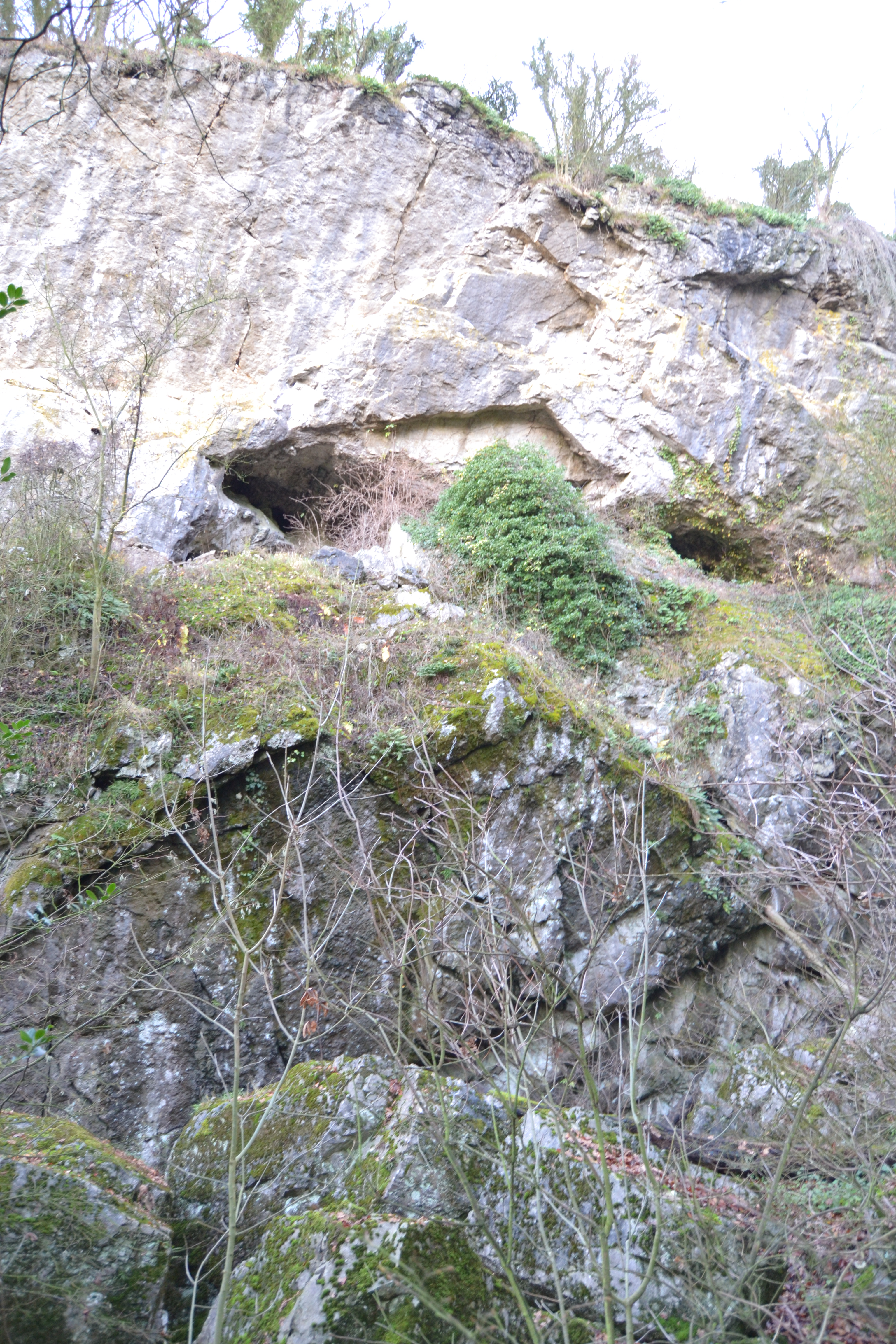 The Upper Schmerling Caves and the remains of the Lower Schmerling Cave, place of the first discovered neandertalian remains by Philippe-Charles Schmerling in 1830 - Awirs, Flémalle / Engis, Liège, Belgium